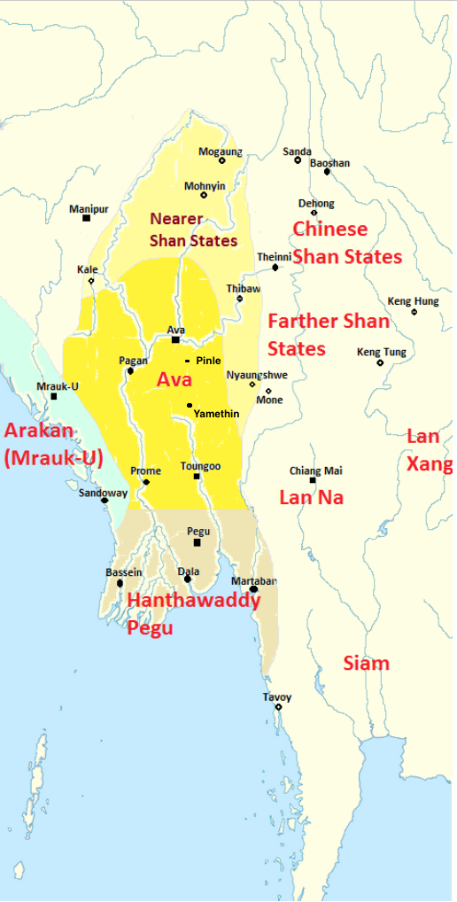 Political map of Ava Kingdom and its neighbors circa 1440